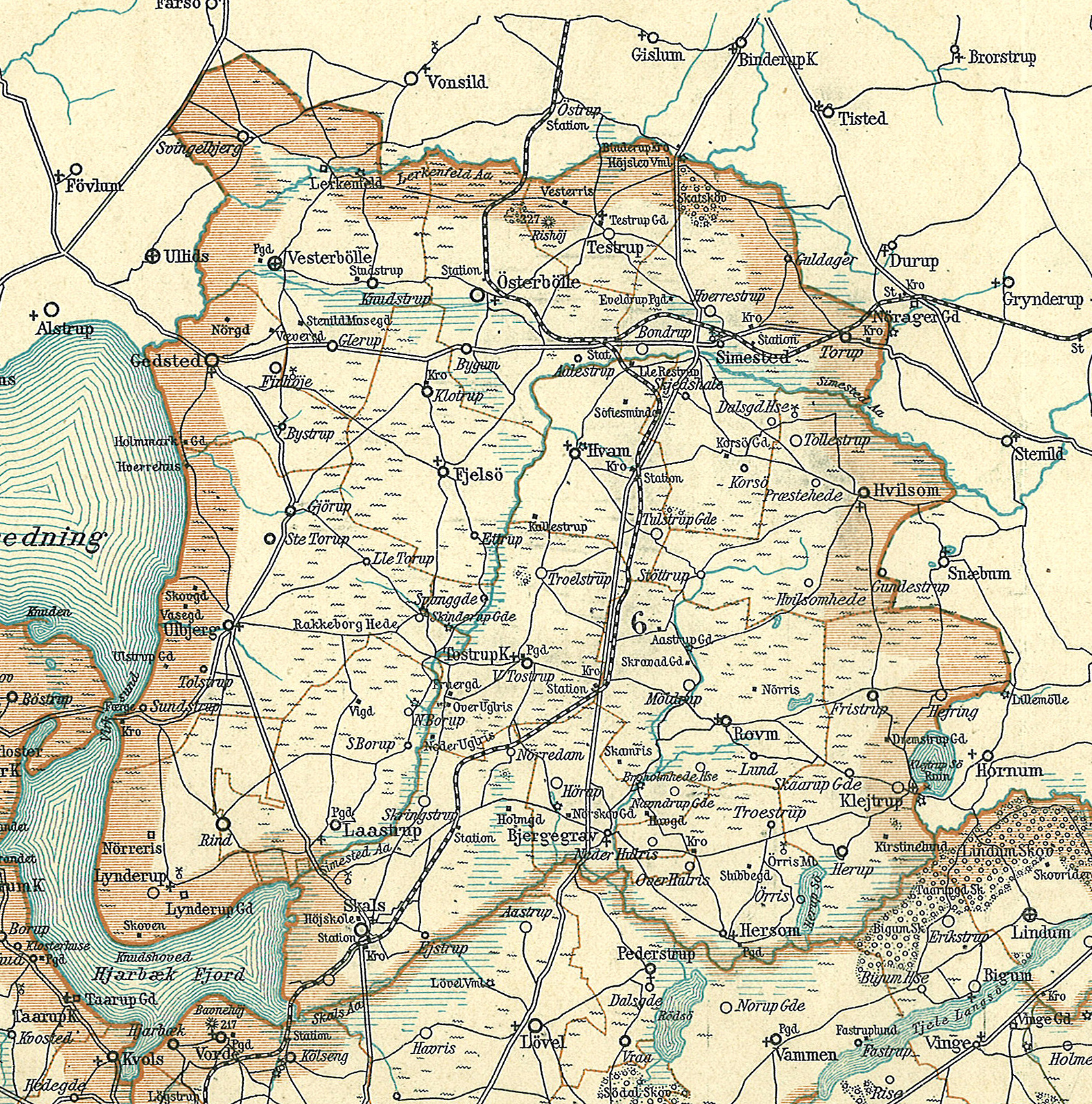 Map of Rinds Herred in the eastern part of Viborg County in Denmark